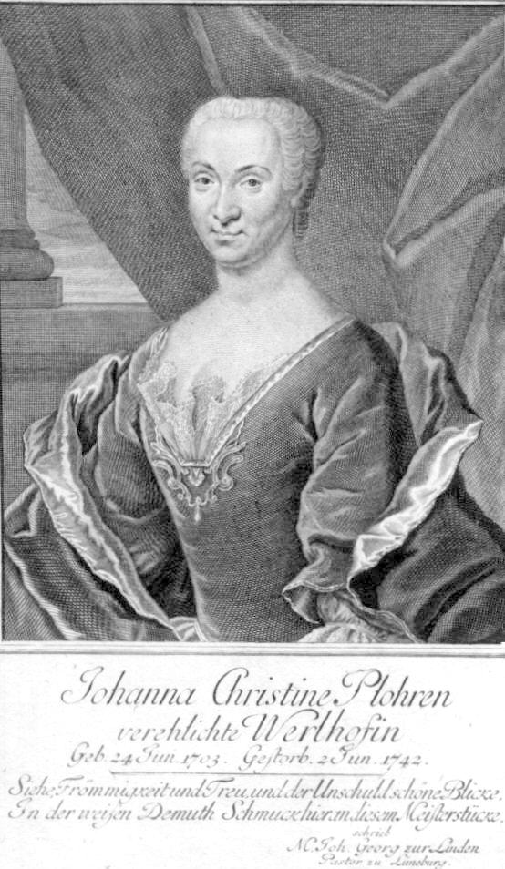 Portrait of Johanna Christina Werlhof, geb. Plohren (1703-1742), wife of Paul Gottlieb Werlhof